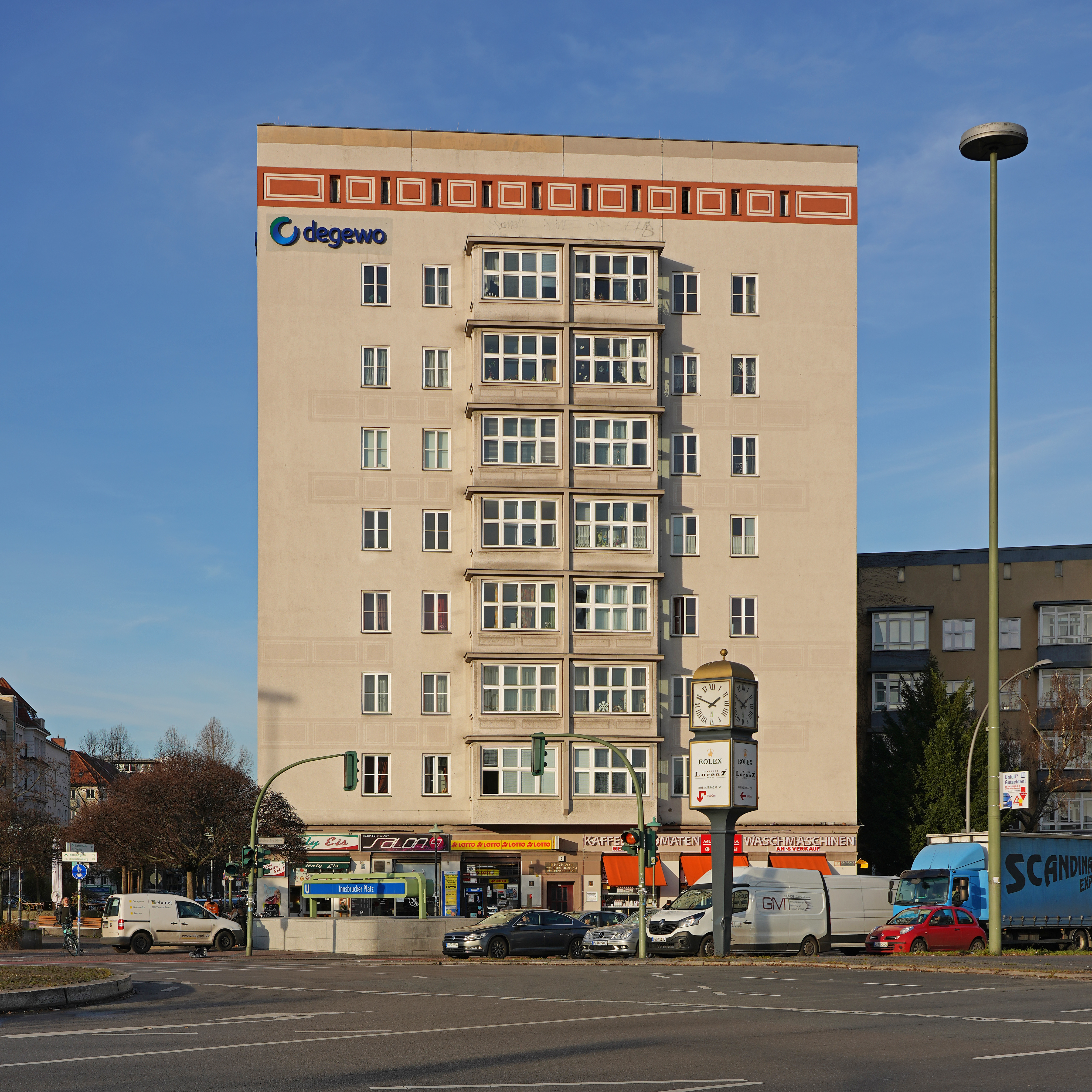 1920s apartment high-rise at Innsbrucker Platz, Berlin (Germany)